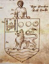 The later grant of arms to John Hawkins in 1571, with the addition bearing heraldic symbols related to Riohacha, Colombia (then Rio de la Hacha), for his notable victory there, the addition being; on a canton or, an escallop between two palmers staves sable. Note the lion in the grant of arms is describes as passant, but in the accompanying illustration is statant.